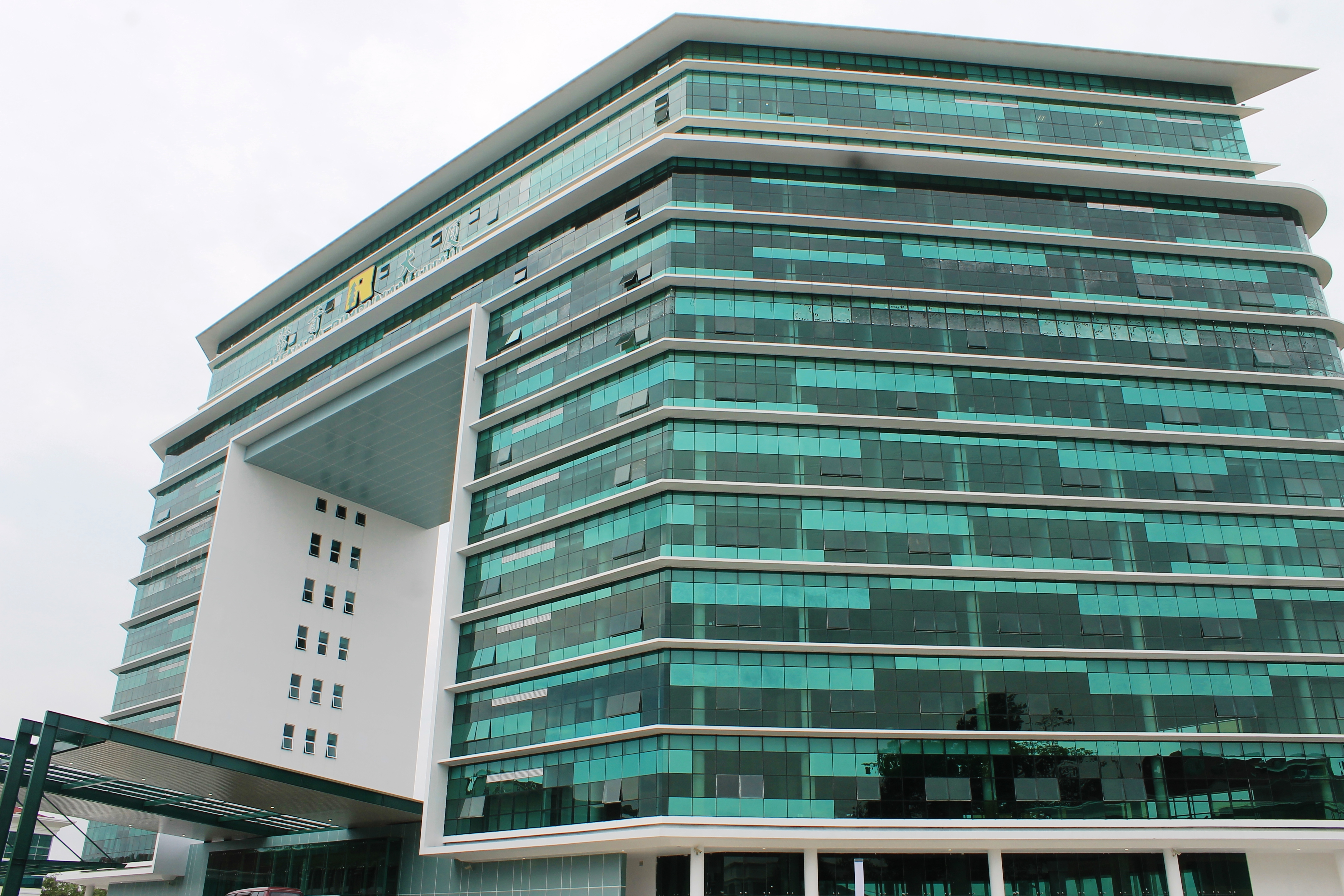 Rimbunan Hijau tower built in 2014 at Upper Lanang Road, Sibu, Sarawak.